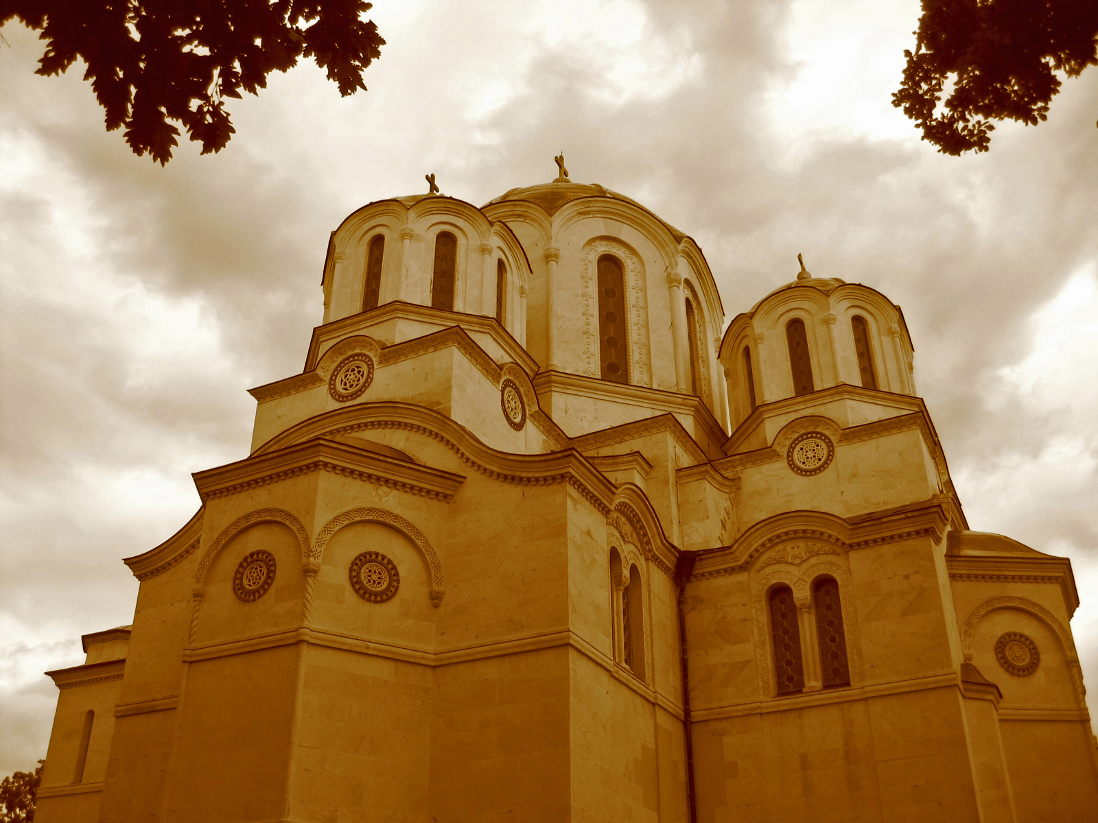 Oplenac Church in Topola, Serbia